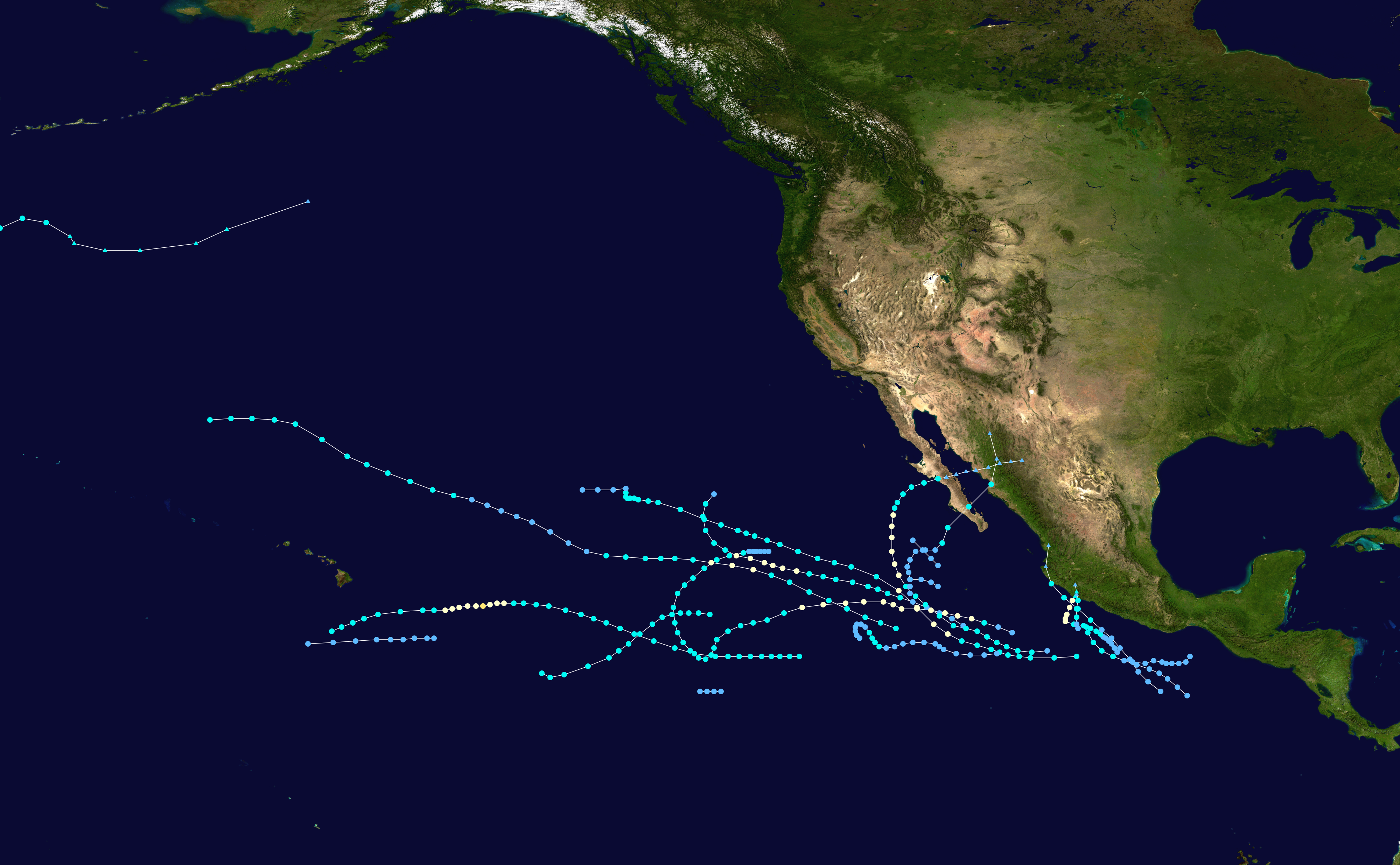 This map shows the tracks of all tropical cyclones in the 1966 Pacific hurricane season. The points show the location of each storm at 6-hour intervals. The colour represents the storm's maximum sustained wind speeds as classified in the Saffir-Simpson Hurricane Scale (see below), and the shape of the data points represent the type of the storm. Saffir–Simpson hurricane wind scale Tropical depression≤38 mph≤62 km/h Category 3111–129 mph178–208 km/h Tropical storm39–73 mph63–118 km/h Category 4130–156 mph209–251 km/h Category 174–95 mph119–153 km/h Category 5≥157 mph≥252 km/h Category 296–110 mph154–177 km/h Unknown Storm typeTropical cycloneSubtropical cycloneExtratropical cyclone / Remnant low / Tropical disturbance